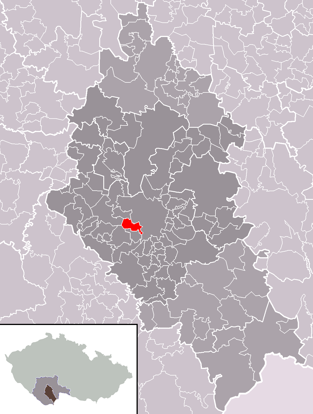 Location of Litvínovice municipality within České Budějovice District and administrative area of České Budějovice as a Municipality with Extended Competence.